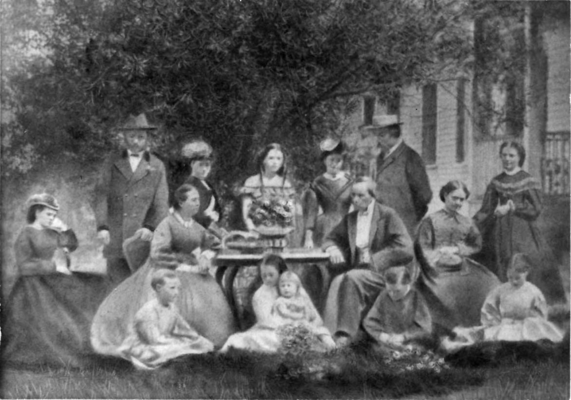 Captain James Makee (November 24, 1812–September 16, 1879) and family at Ulupalakua, Maui.